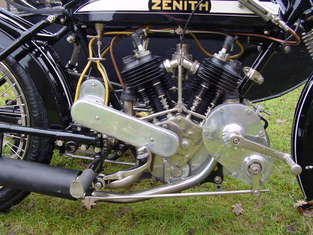 JAP Zenith Twin motorcycle from 1918